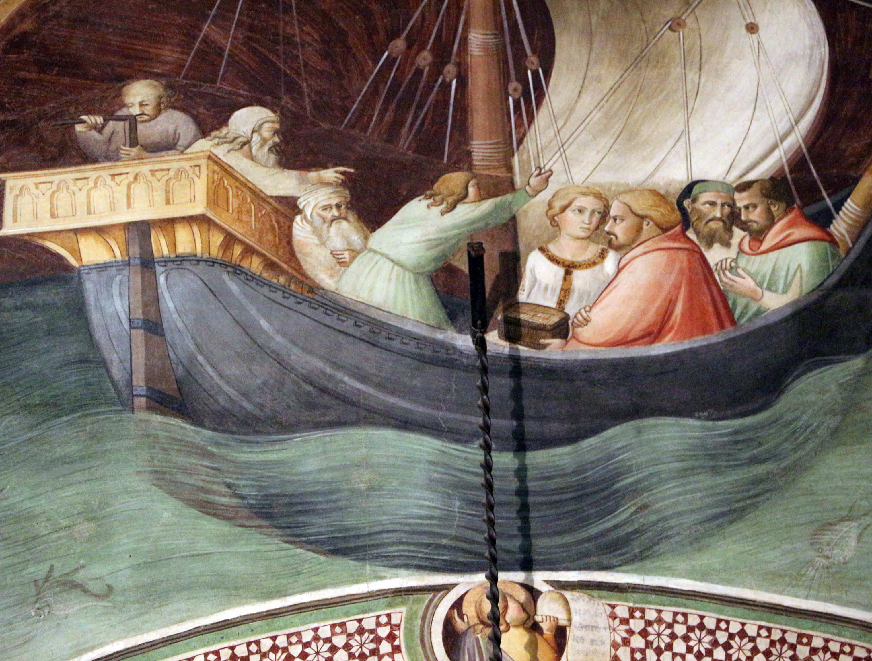 Cappella del Sacro Cingolo - Frescos by Agnolo Gaddi